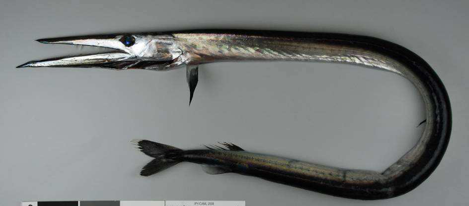 A new Antarctic species of daggertooth discovered in 2008 (Anotopterus vorax).